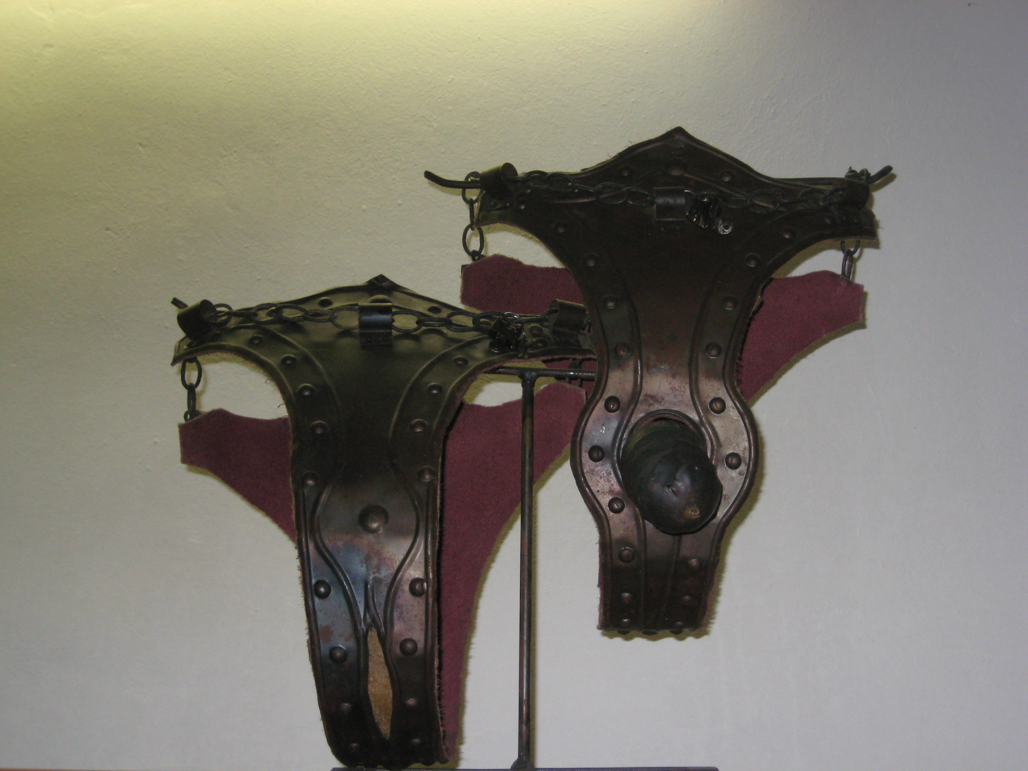 Chastity belt, Sevnica Castle, Slovenia. (Note that no "old" chastity belt specimens in European museums have been proven to date from before the late 16th century or 17th century, while some are outright 19th century forgeries.)